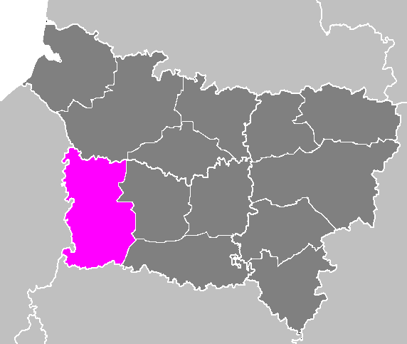 Maps of arrondissements and cantons of France: Arrondissement de Beauvais.PNG